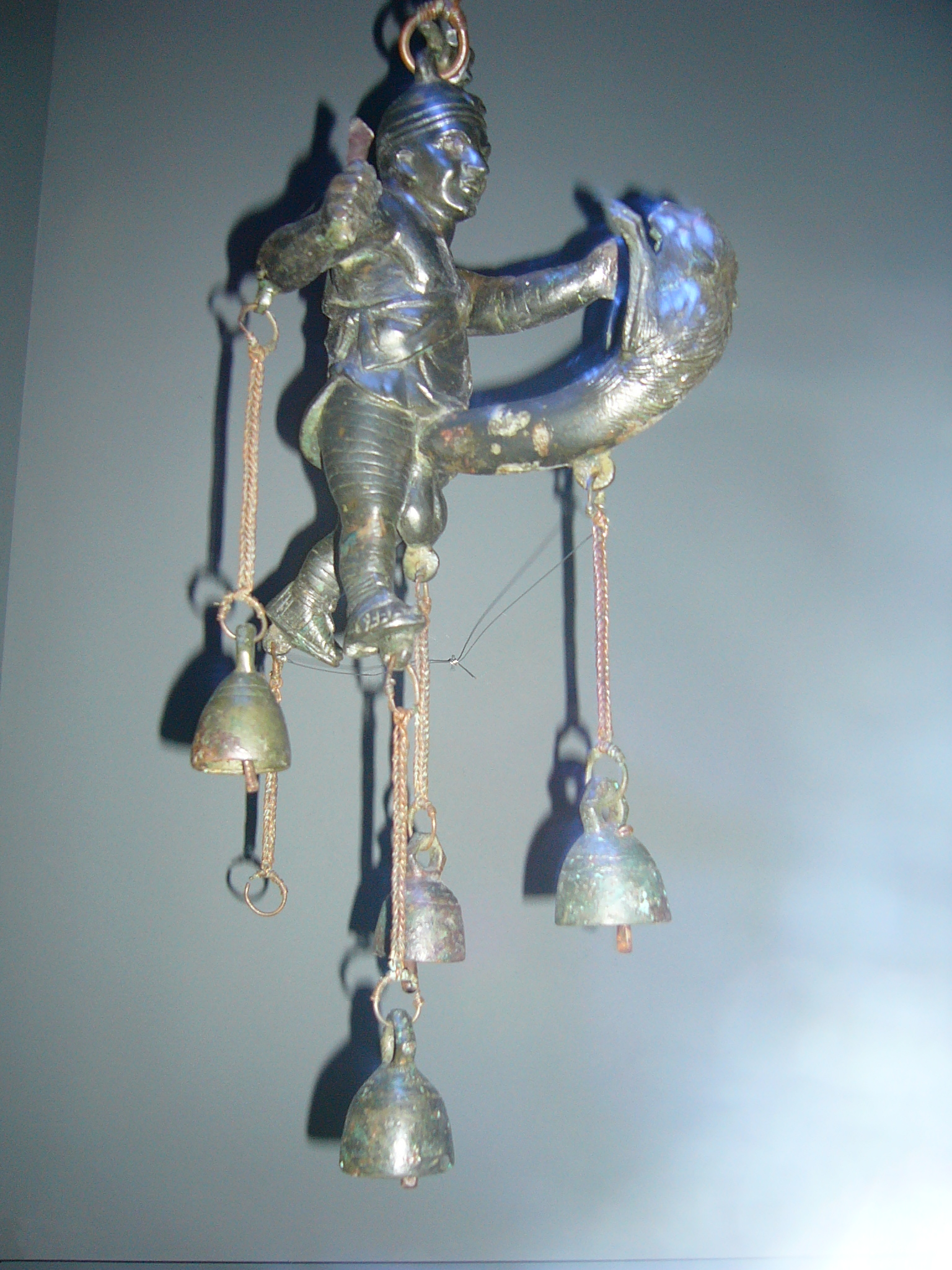 A man is fighting against his own sex, portrayed as a raging animal. Tintinnabulum, about 1st century B.C. which was placed in front of house entrances to prevent harm/bad luck. It was found in antique Herculaneum, Southern Italy, and is usually shown in the Secret Cabinet in the Museo Archeologico, Naples/Napoli (inv. nr. 27853).